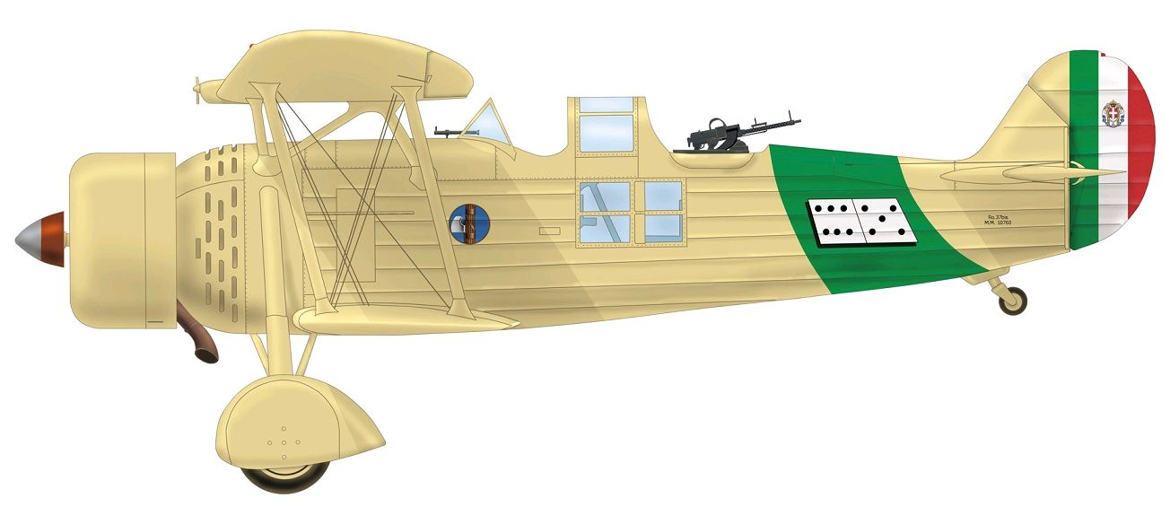 IMAM Ro.37bis of the 105th Squadriglia XXVI Gruppo Regia Aeronautica, the Second Italo-Abyssinian War